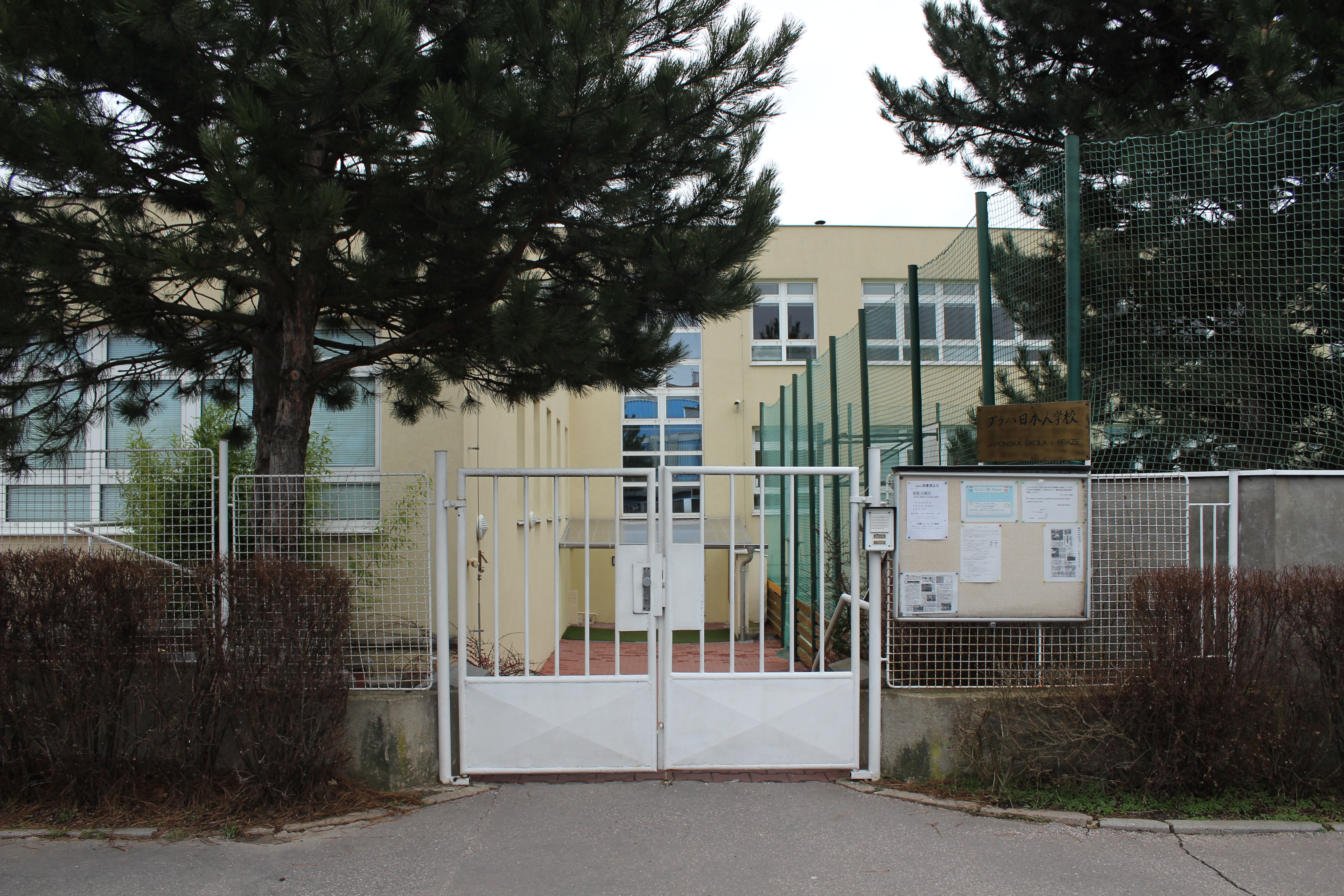 Entry of the Japanese School in Prague from Skuteckého street.